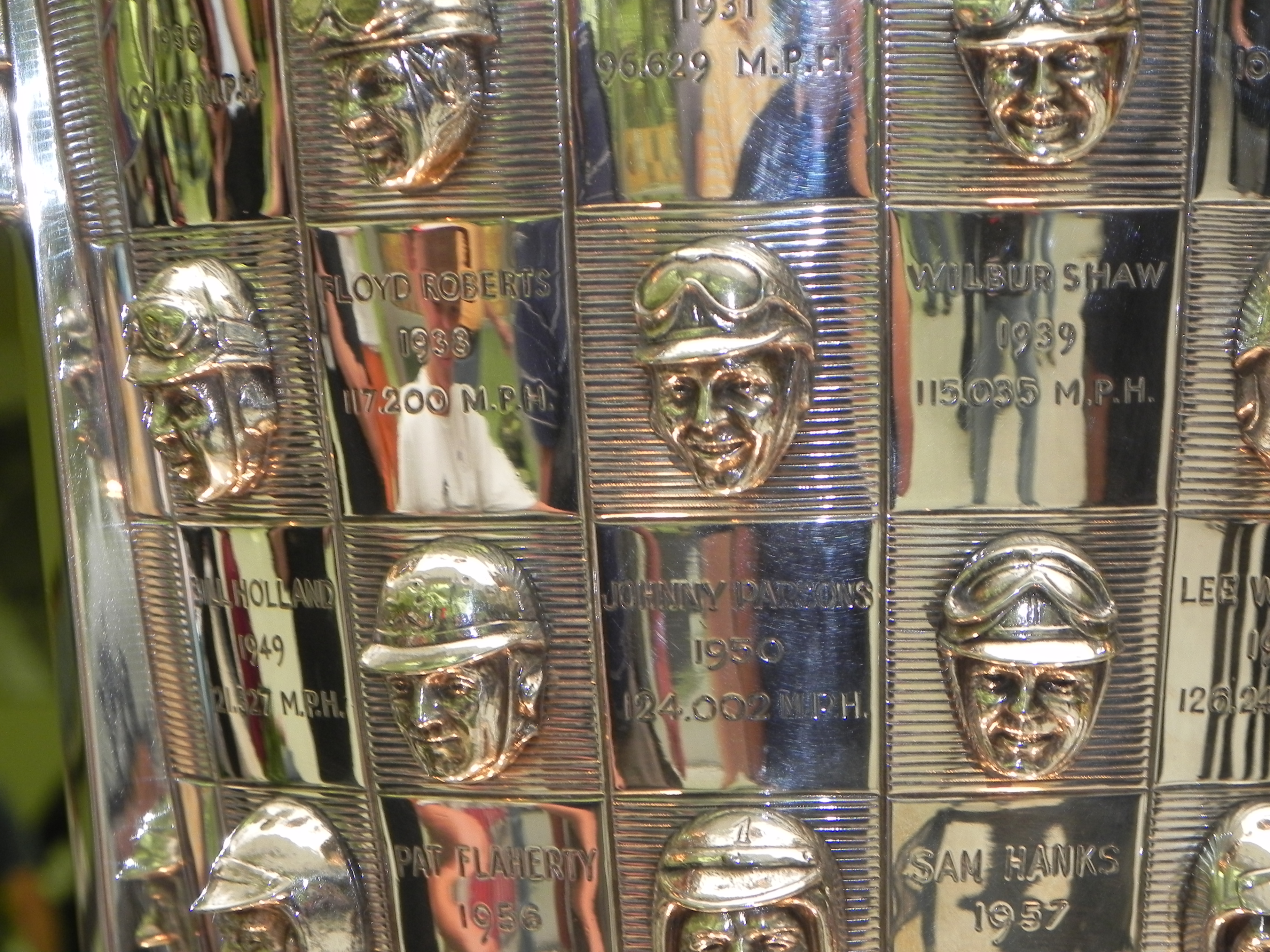 Image of the Borg-Warner Trophy. The trophy for the Indianapolis 500, located at the Indianapolis Motor Speedway Hall of Fame Museum.